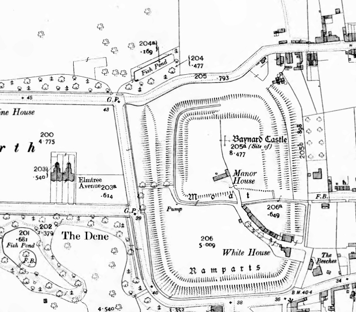 OS map showing Baynard Castle, Cottingham, East Riding of Yorkshire, England.